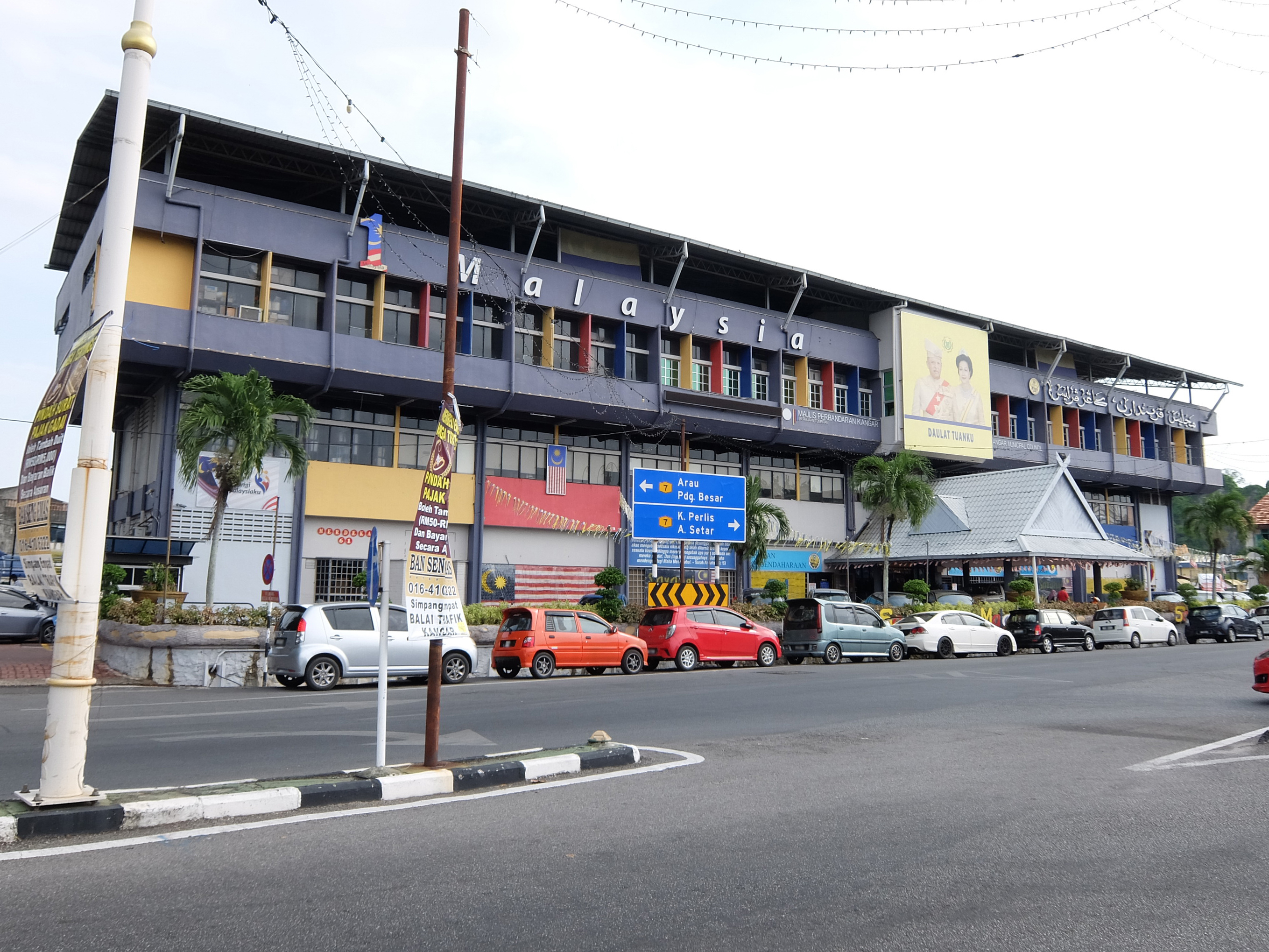 Kangar Municipal Council, Kangar, Perlis, Malaysia